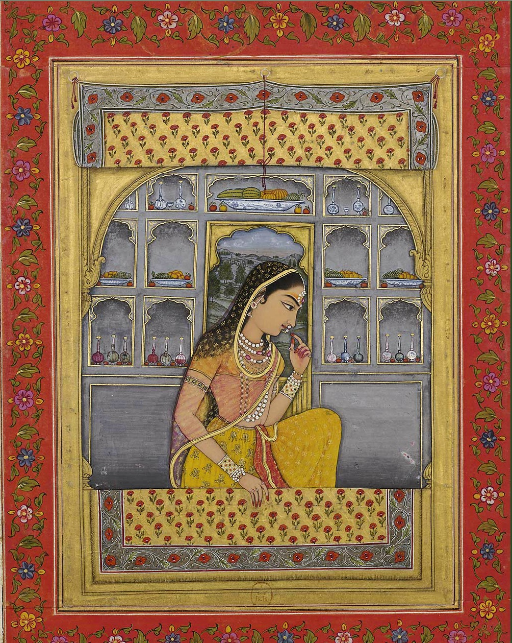 22Princess Padmavati ca. 1765 Bibliothèque nationale de France, Paris